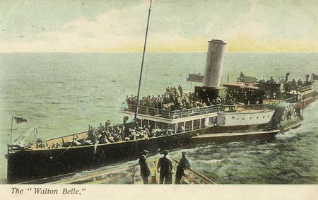 PS Walton Belle at Walton Pier. The Walton Belle sailed from Great Yarmouth via Lowestoft and intermediate piers to Clacton, connecting with London Belle the for London. During WW1 HMS Walton Belle (1915-1919).